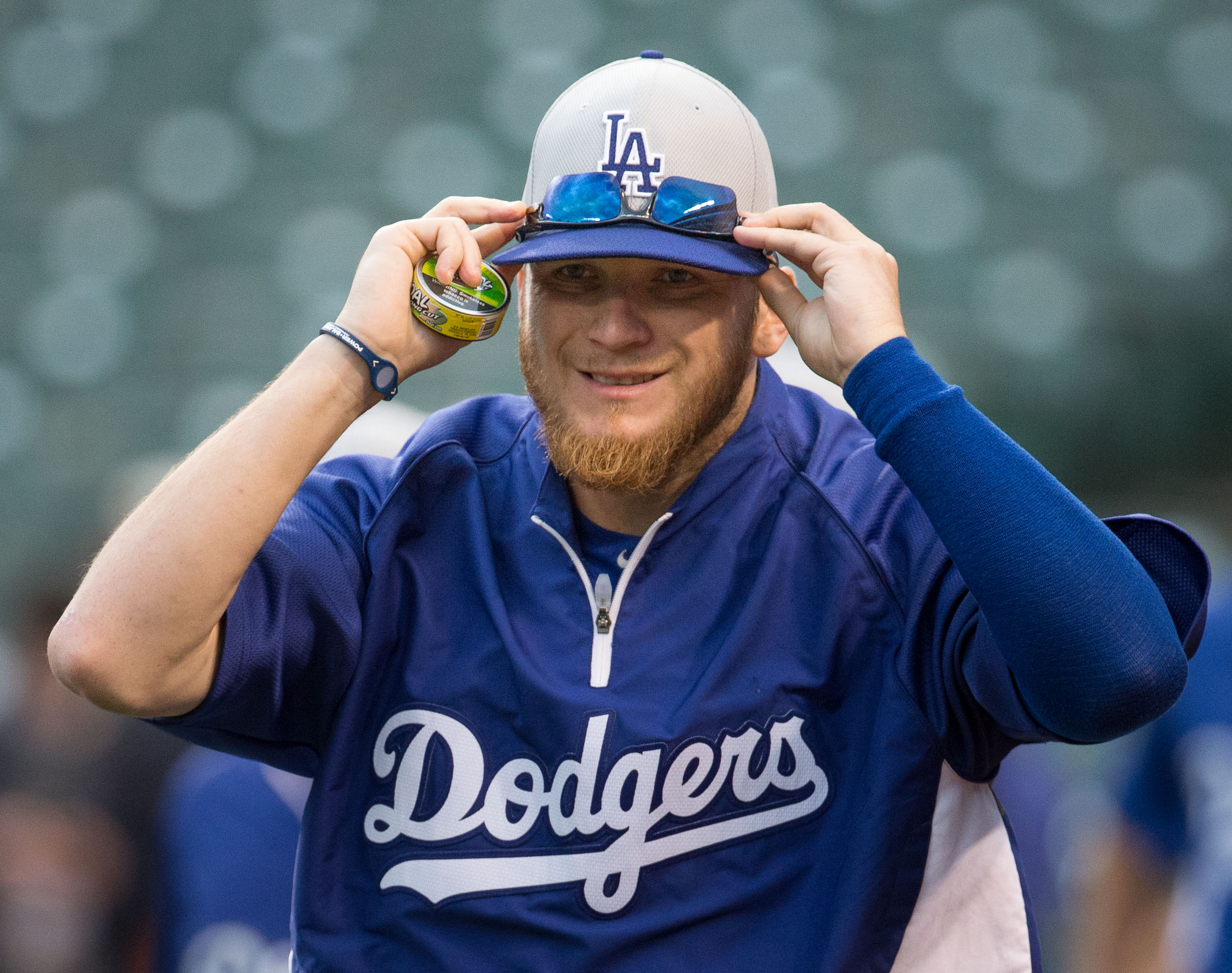 J. P. Howell